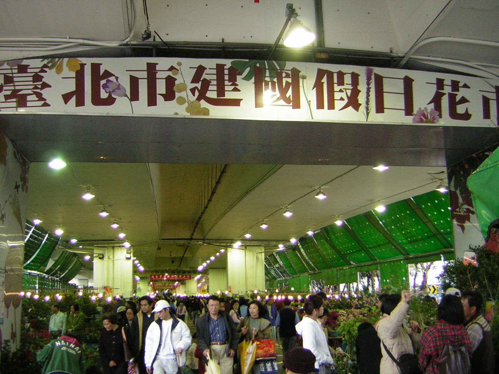 台北市建國假日花市之快照(Snapshot of Jian-Guo Flower Market of Taipei City)